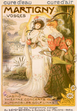 Advertising poster for Martigny-les-Bains, Vosges by Lucien Métivet.